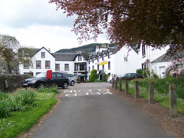 Moulin Hotel An authentic Scottish highland hotel since 1695. Sited in the village square of Moulin, an ancient Scottish waypoint.